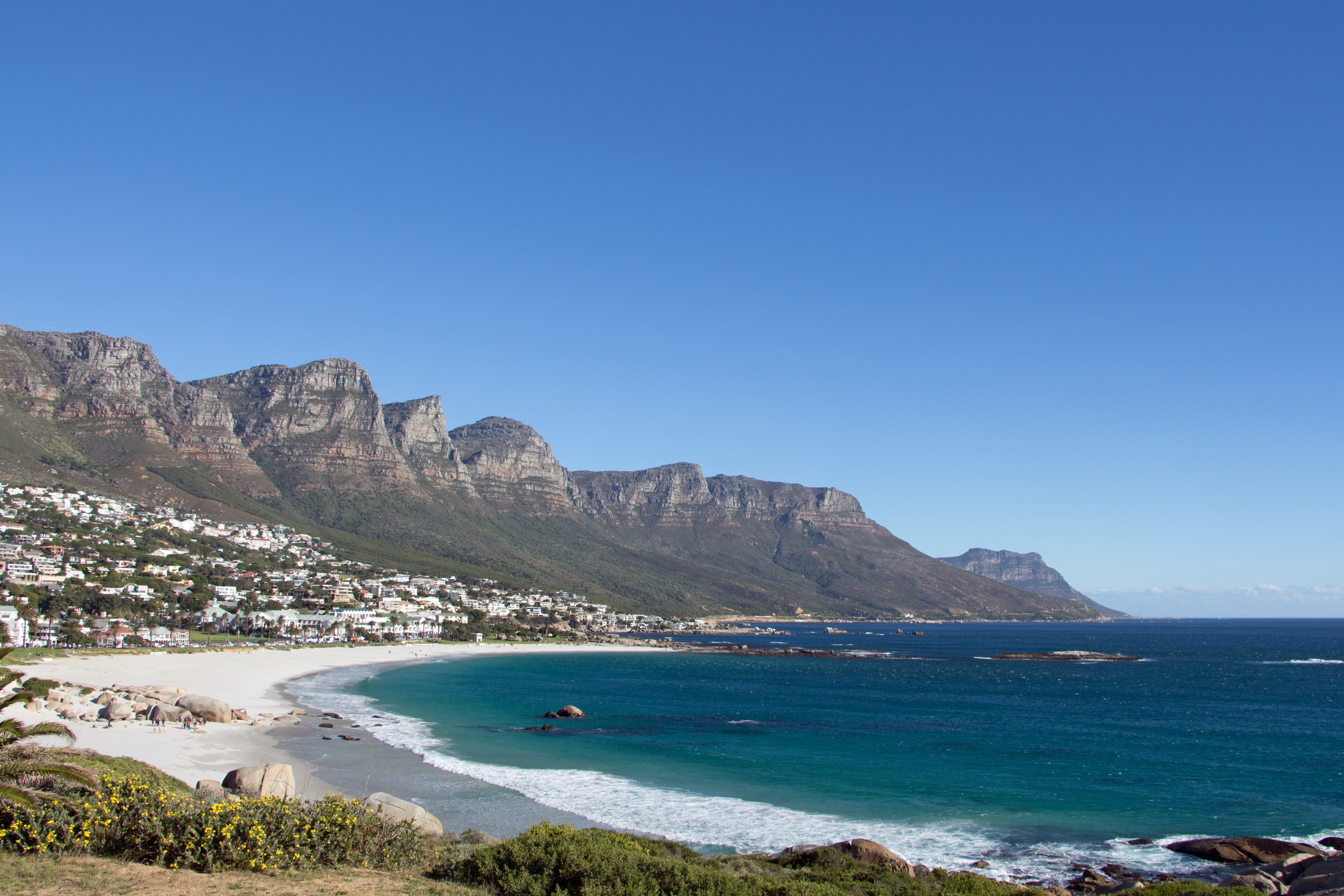 Camps Bay, Cape Town, South Africa